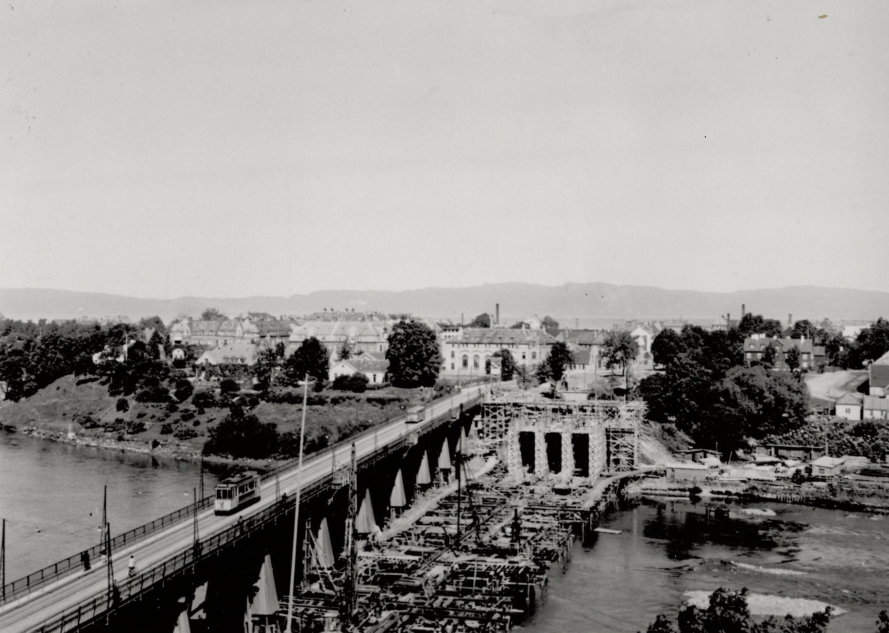 Format: Fotopositiv Dato / Date: 1949 Fotograf / Photographer: Ukjent Sted / Place: Trondheim Eier / Owner Institution: Trondheim byarkiv, The Municipal Archives of Trondheim Arkivreferanse / Archive reference: Tor.H40.B08.F0557 [T0685] Merknad: Elgeseter Bru i 1949. Den gamle ble revet 1950/51 og ny bro stod ferdig i 1951.